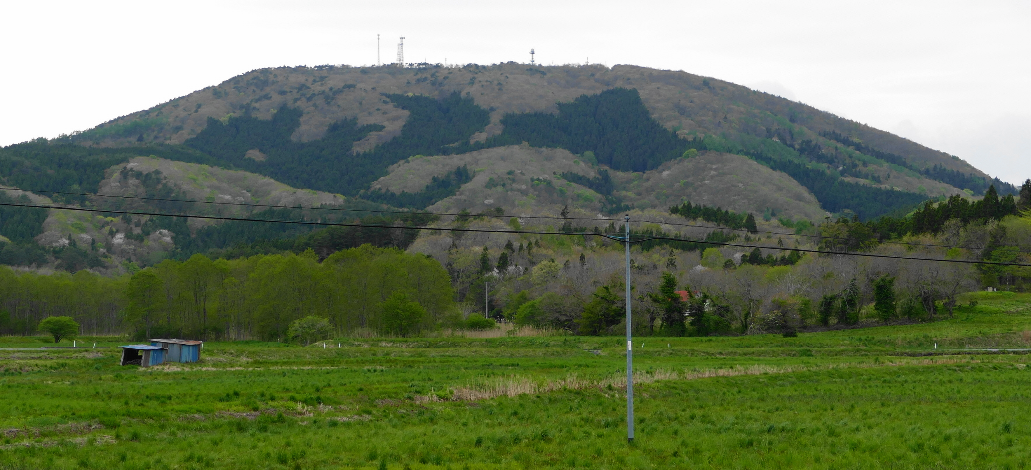 Mount Yadaijin,Fukushima prefecture,Japan